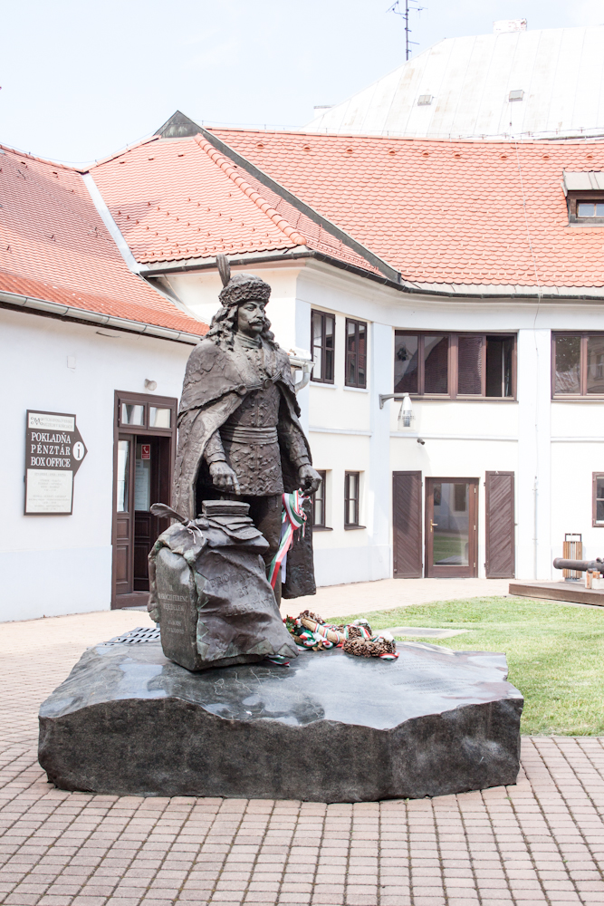 Statue of Rákóczi in Kassa